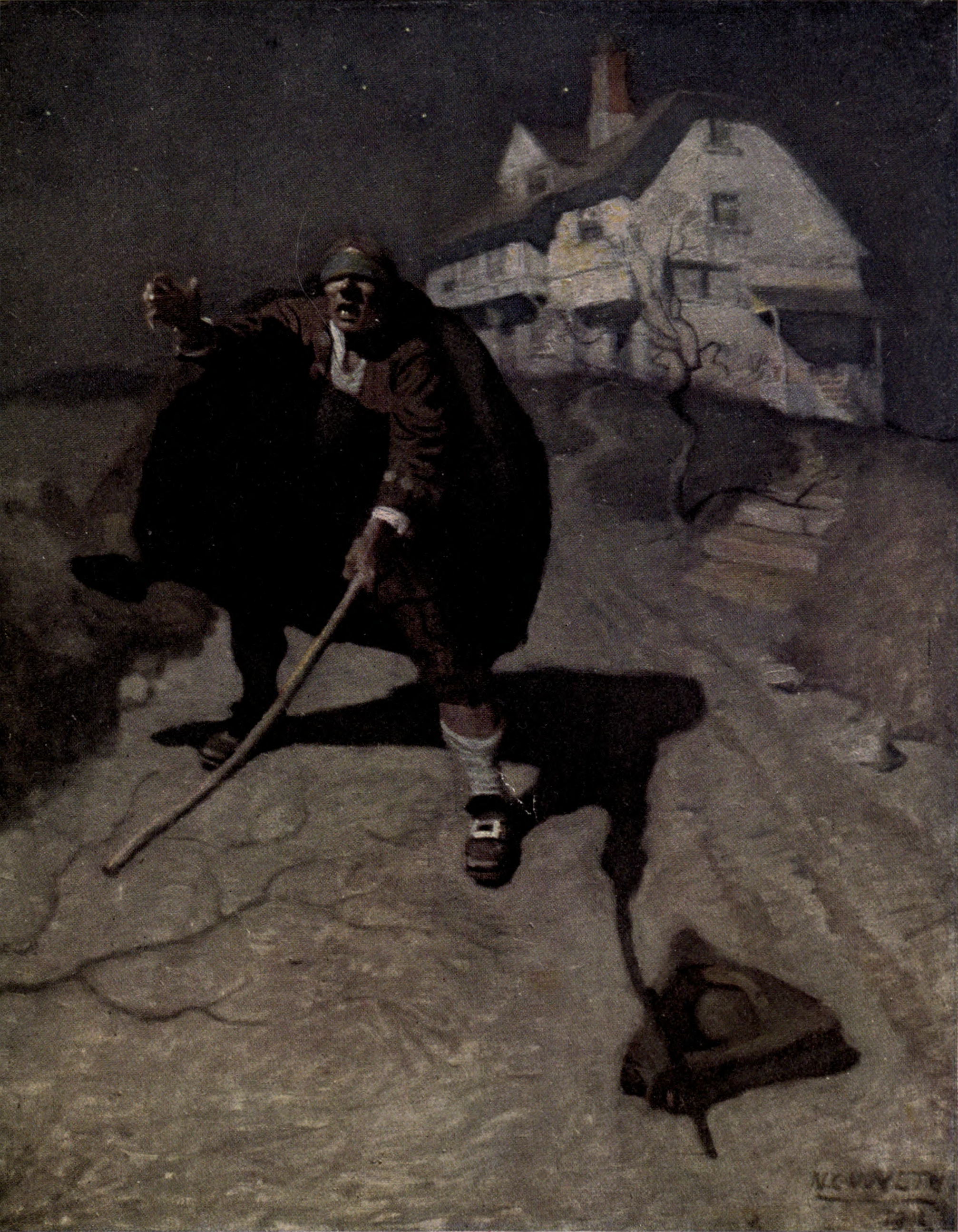 Blind Pew by N. C. Wyeth from 1911 edition of Treasure Island